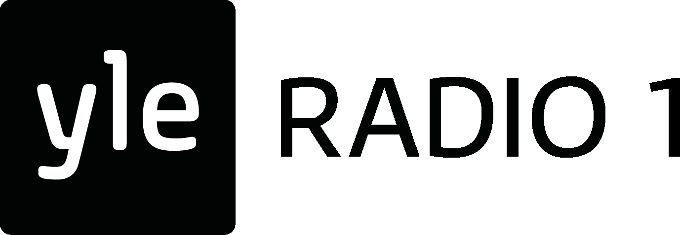 Yle Radio 1´s logo